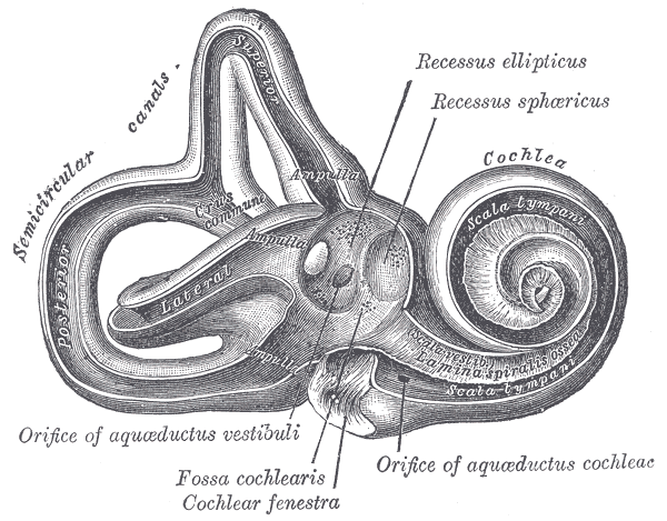 Interior of right osseous labyrinth.